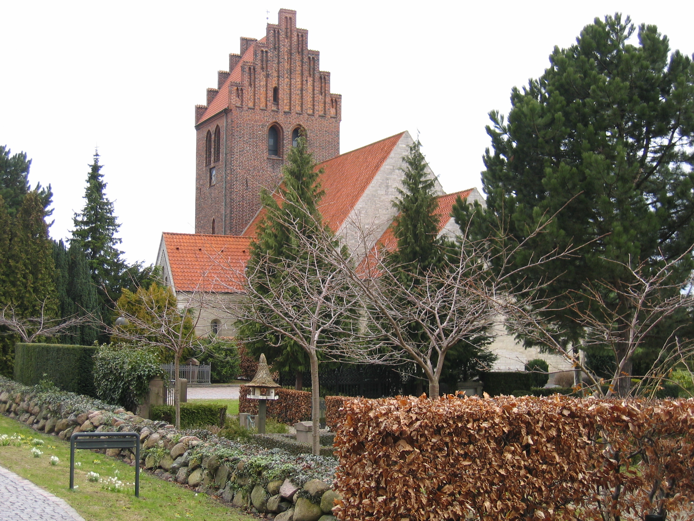 Brønshøj church, Brønshøj Parish, Sokkelund Herred, København County, Denmark